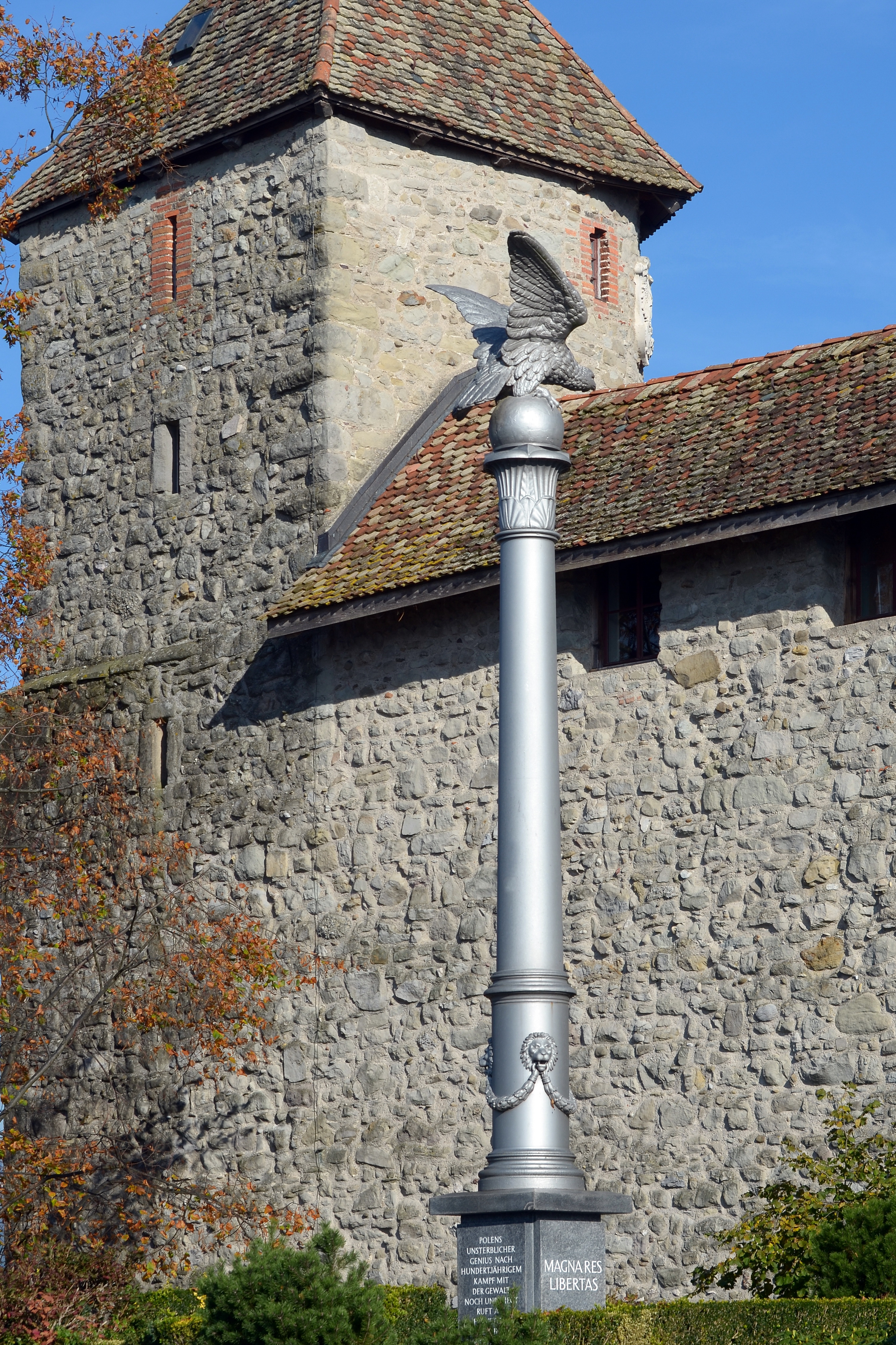 Polnische Freiheitssäule (Polish freedom column) at the eastern side of the Schloss (castle) in Rapperswil